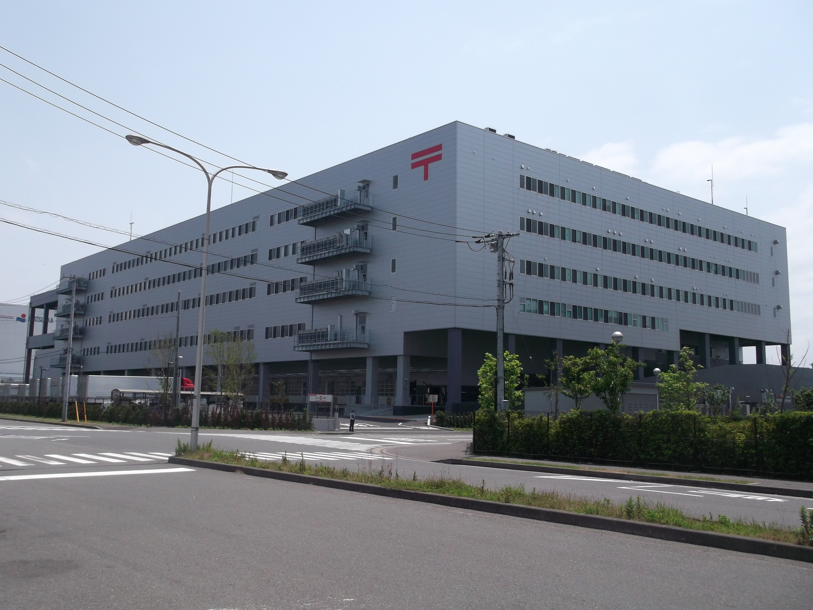 Kawasaki Higashi post office, and Yokohama Customs Kawasaki Overseas Mail Sub-branch Customs